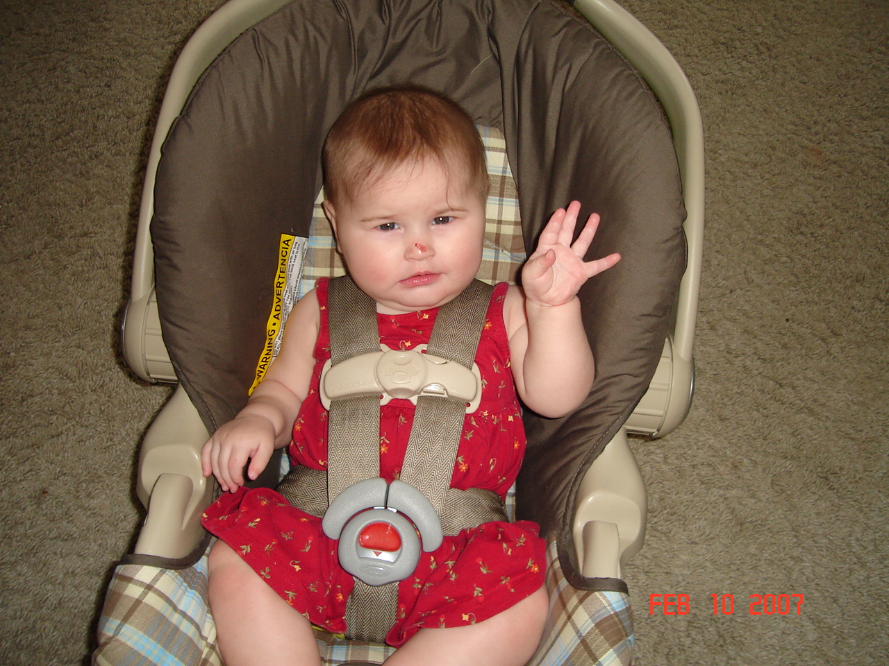 This is a pix of my dd in the graco safe seat1.